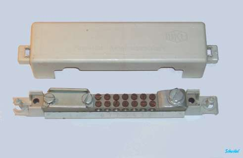 Unconnected potential equalization rail.